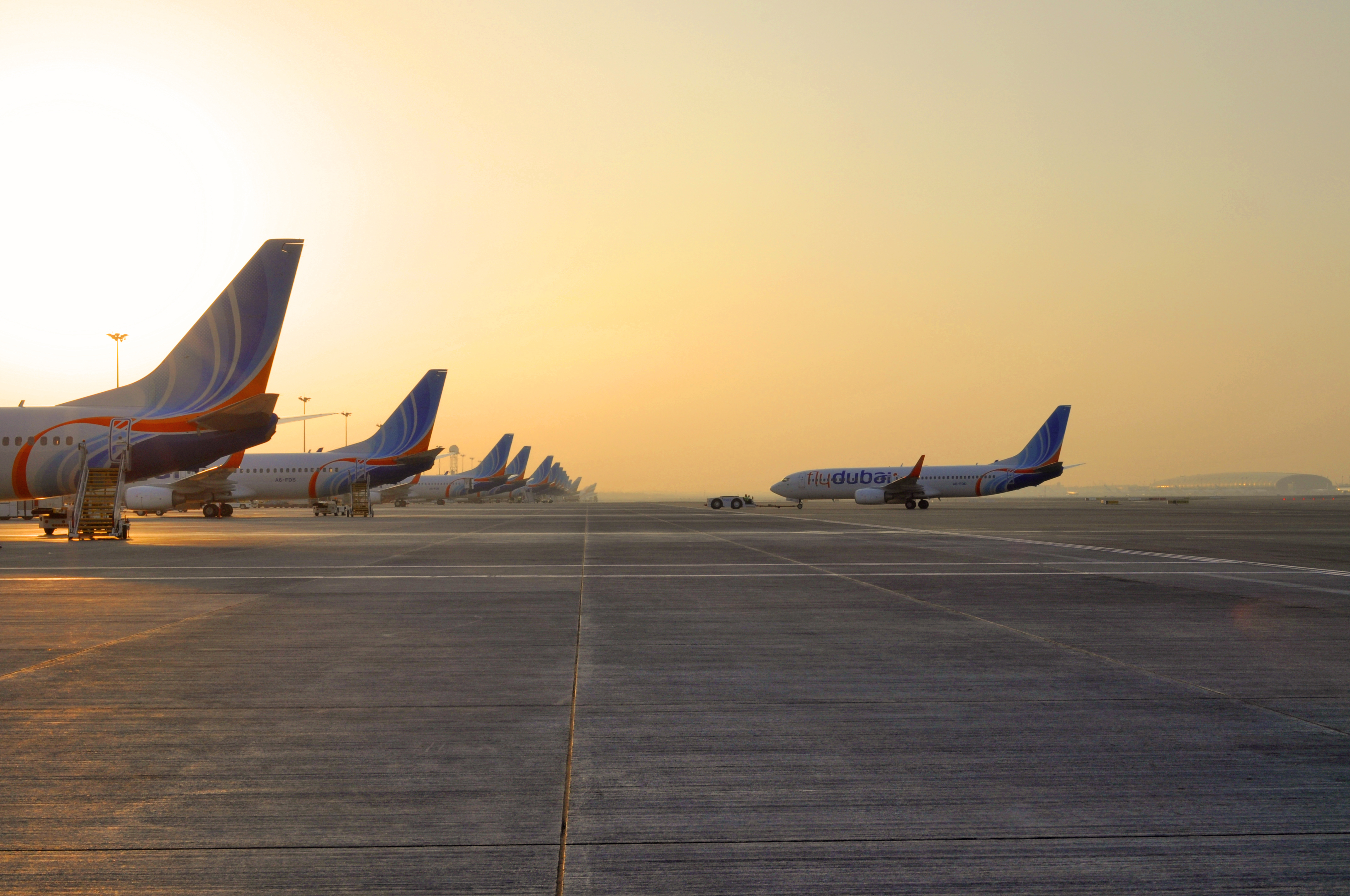 Early Morning Dubai OMDB Terminal 2 Ramp